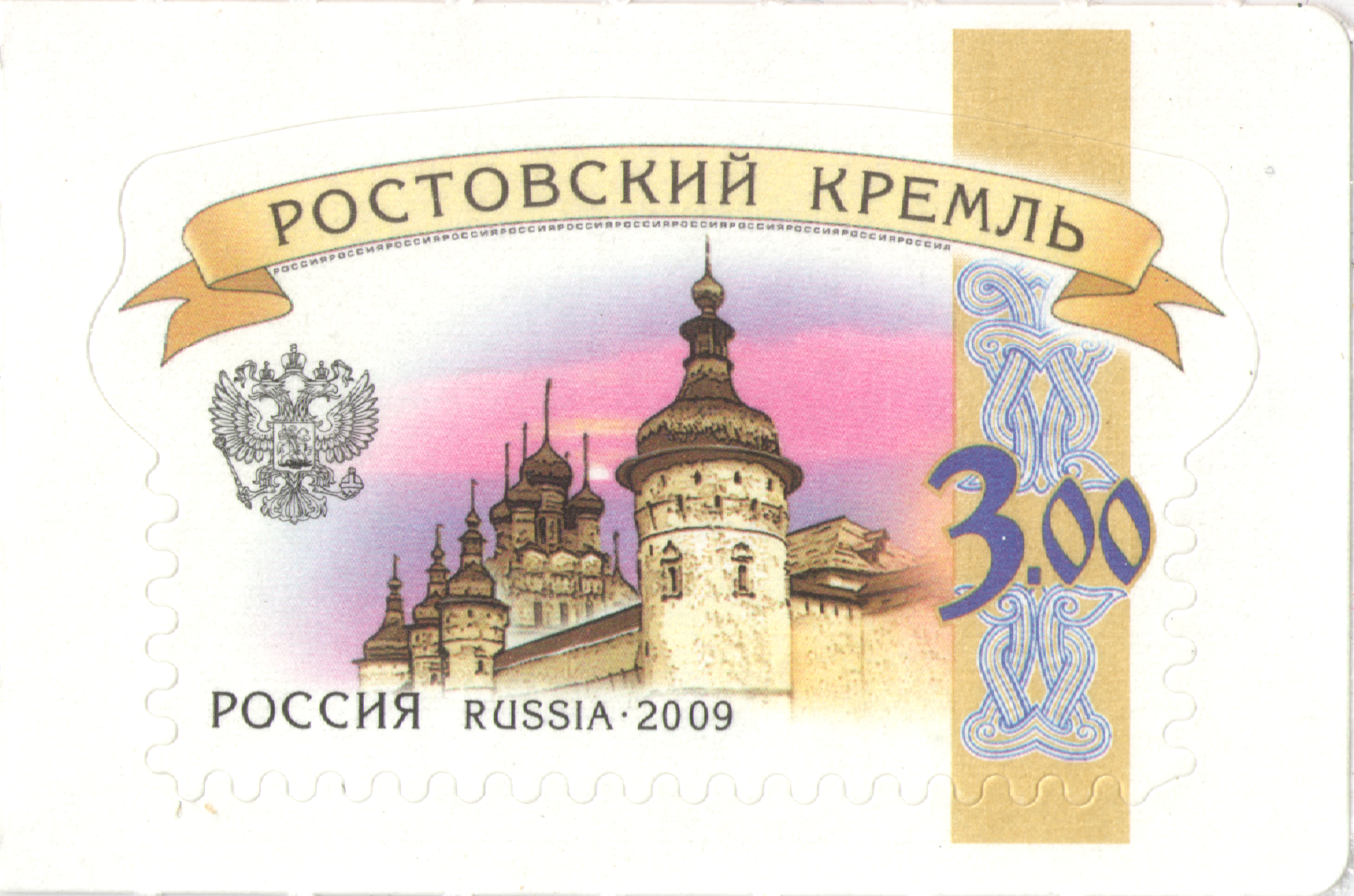 Russian postal stamp of Rostov Kremlin. Cost 3 roubles.